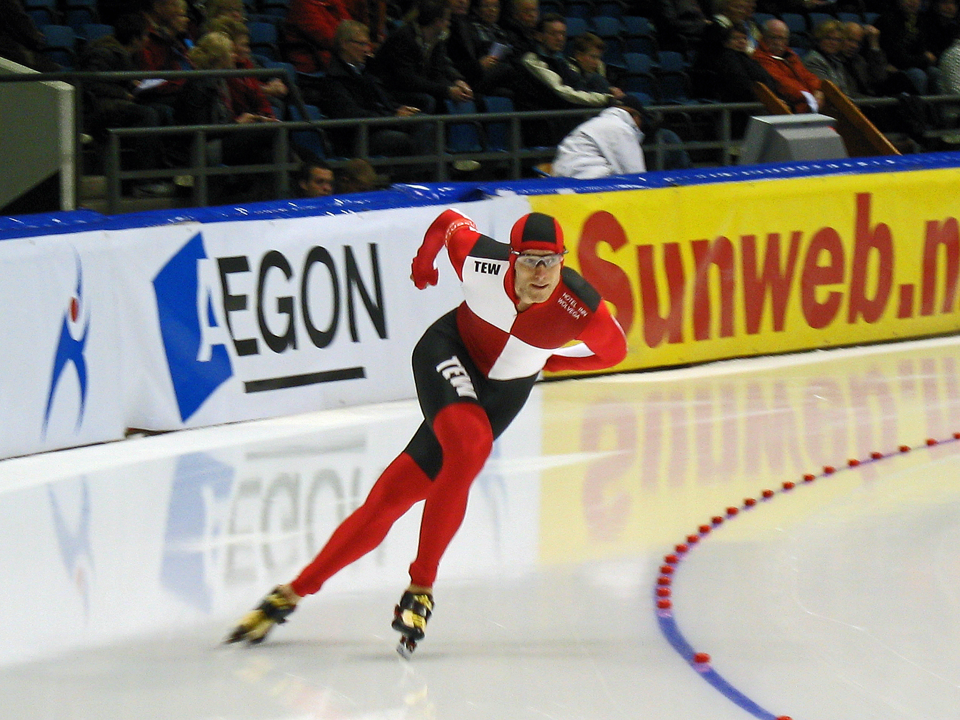 Roger Schneider racing 5k during World Cup Heerenveen